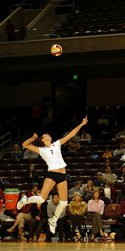 Volleyball, USC Trojans, University of Southern California in Los Angeles, California